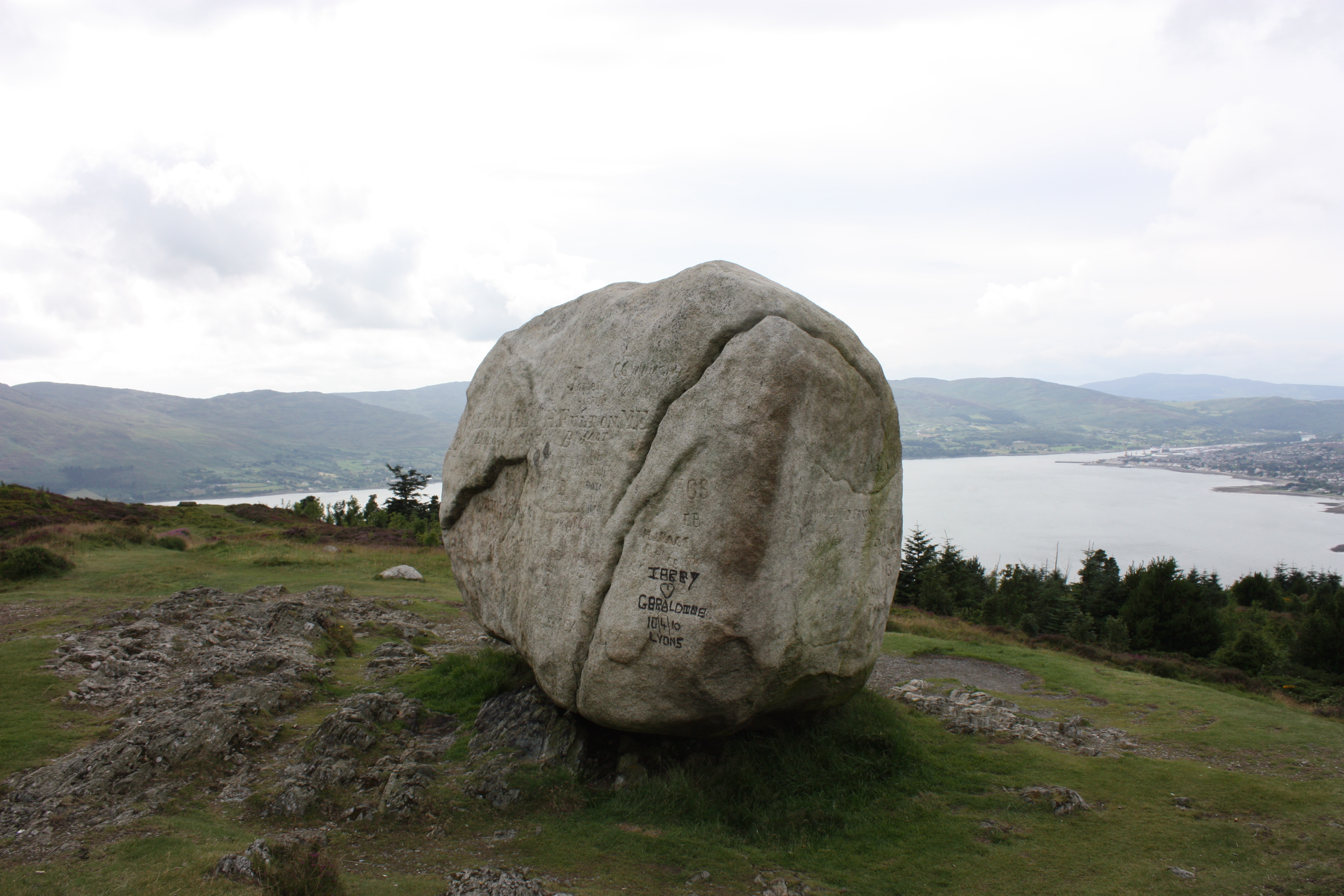 Cloughmore Stone, Rostrevor Forest, Rostrevor, County Down, Northern Ireland, July 2010